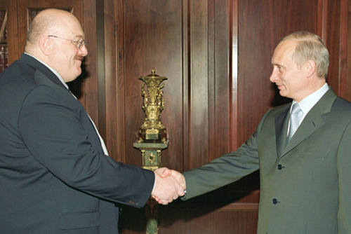 President Vladimir Putin with Kakha Bendukidze.